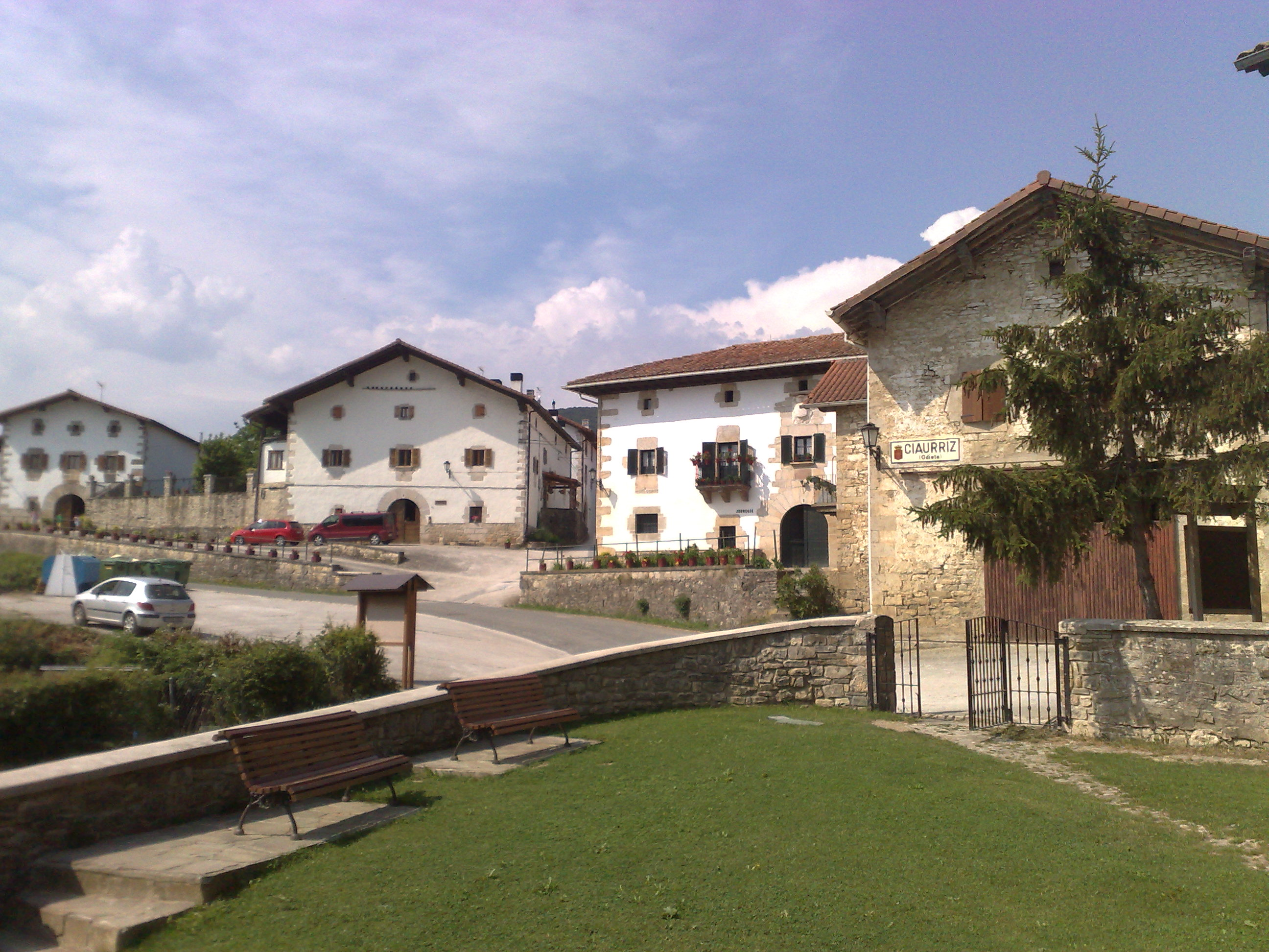 Houses in Ziaurritz, Odieta, Navarre, Basque Country.